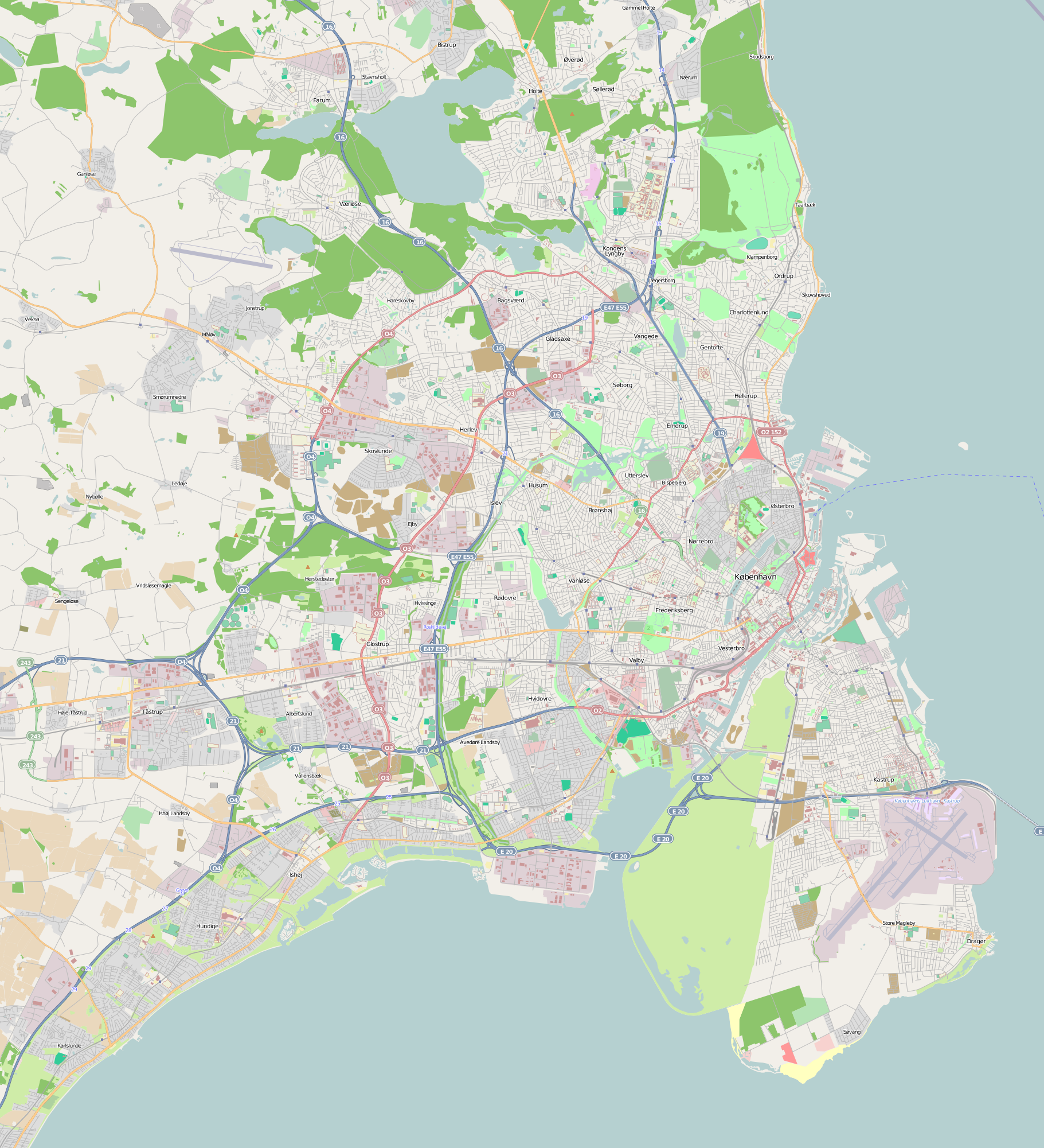 Map of Copenhagen with surroundings This map may be incomplete, and may contain errors. Don't rely solely on it for navigation.